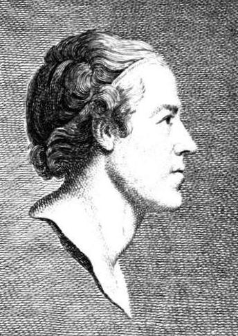 Robert Mylne (1734-1811), Scottish architect